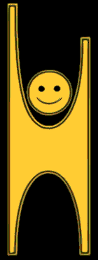 Happy human Humanist logo